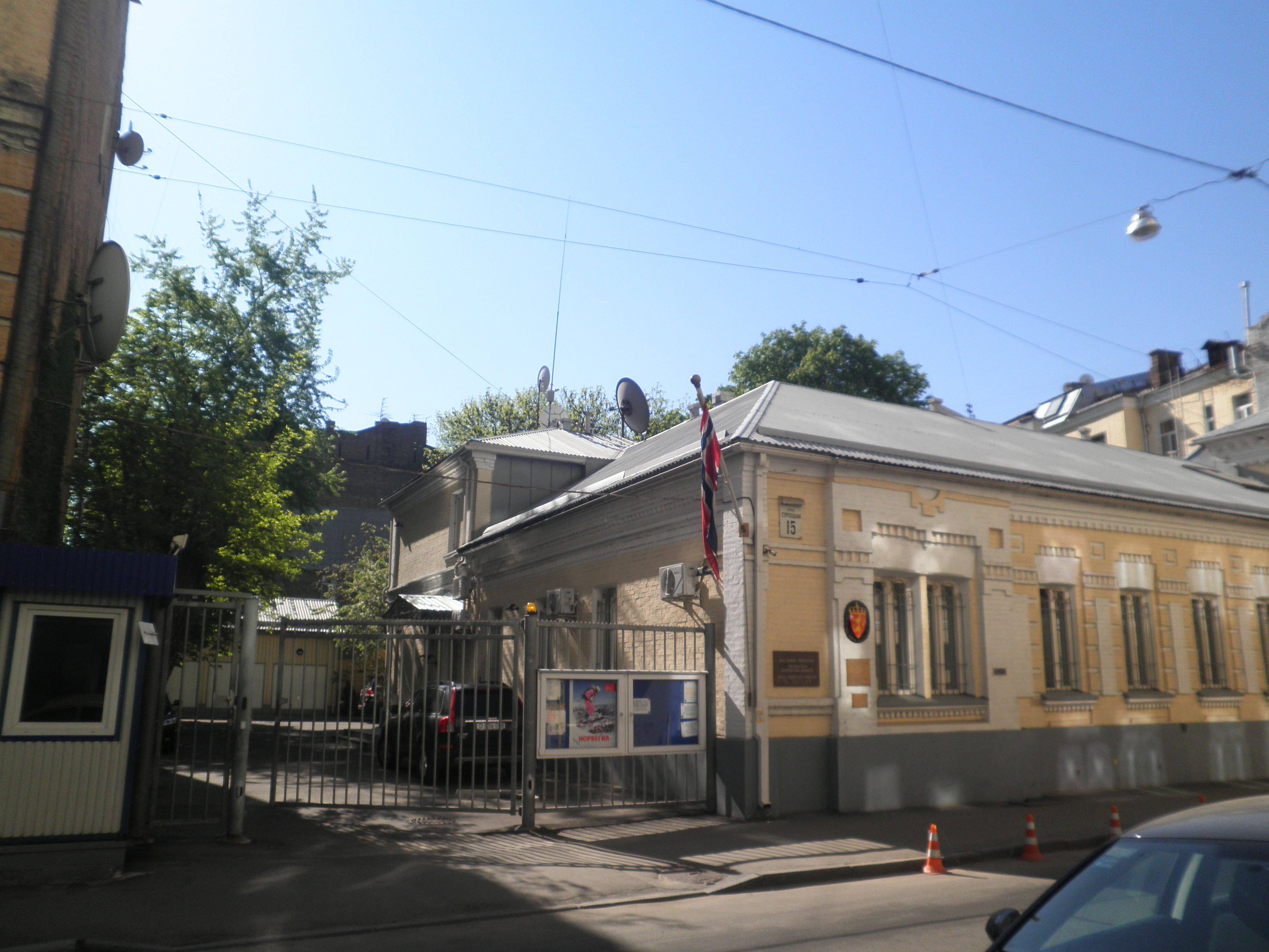 Embassy of Norway in Kyiv.jpg